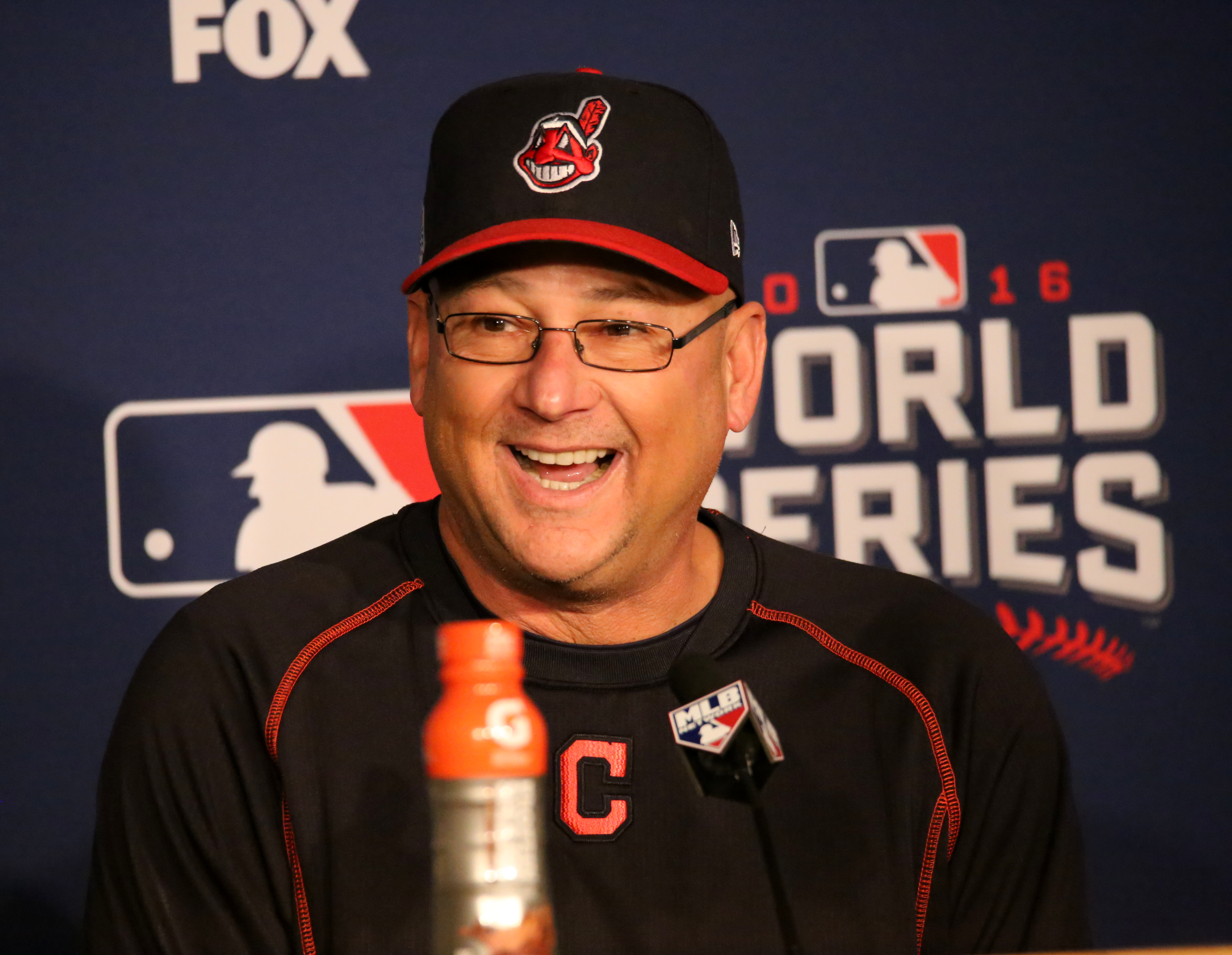 Indians manager Terry Francona smiles during his off-day press conference at Progressive Field.